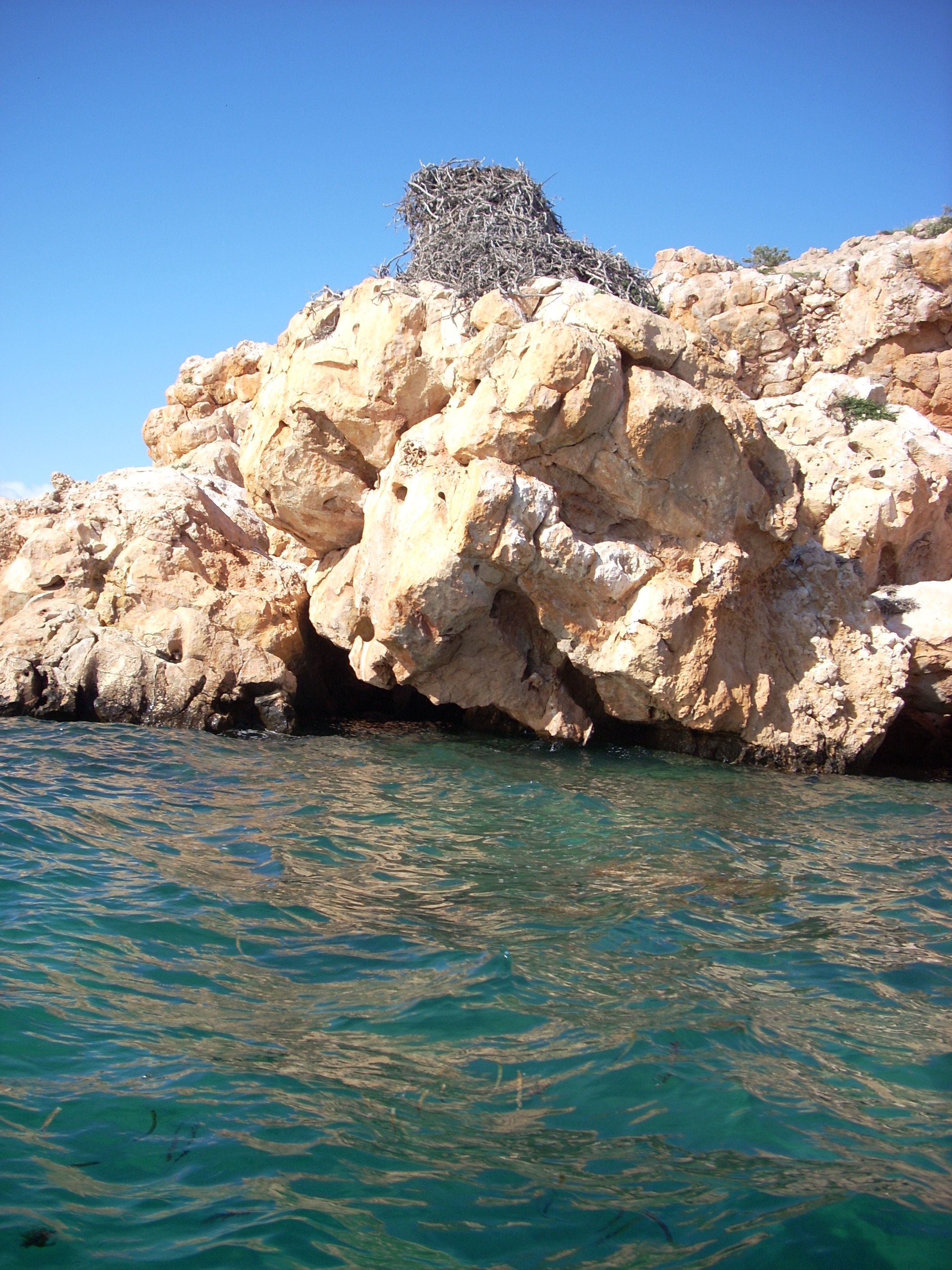 Sea eagle nest on Hamelin Island, Shark Bay, Western Australia